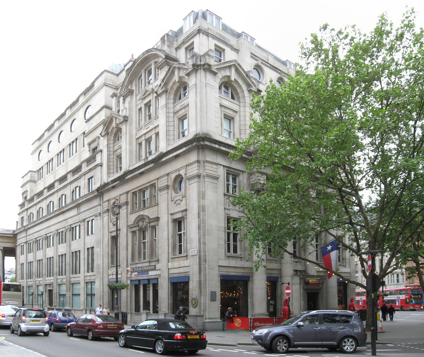 Former headquarters of the White Star company, owners of the Titanic, next to Trafalgar Square.